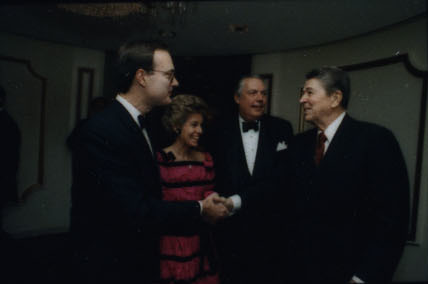 President Ronald Reagan, Christopher DeMuth, Michael Novak, Jeane Kirkpatrick, Gerald Ford, and Kenneth Duberstein (Not in all photos) (2-25) American Enterprise Institute, Photo Ops. In holding room